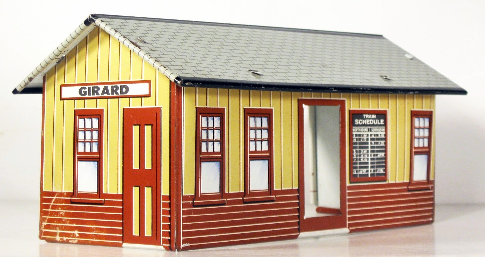 See filename and metadata for description.